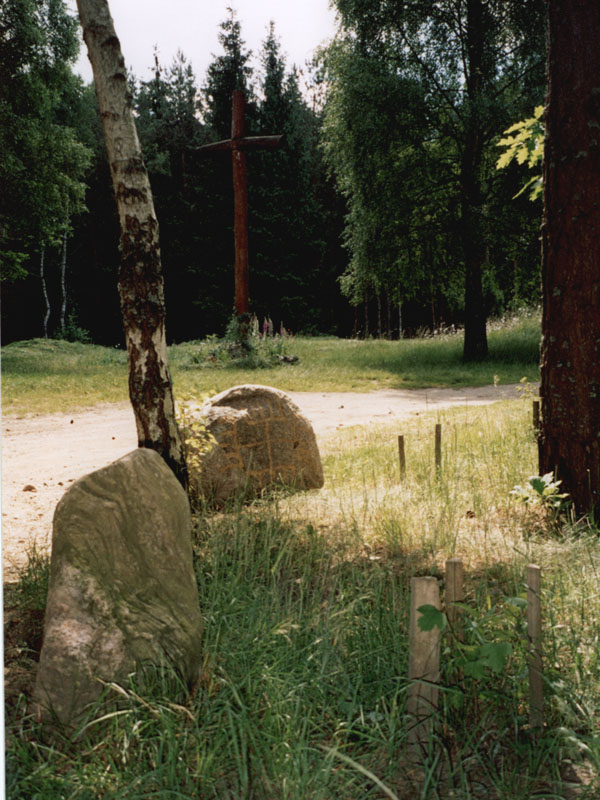 Polanow